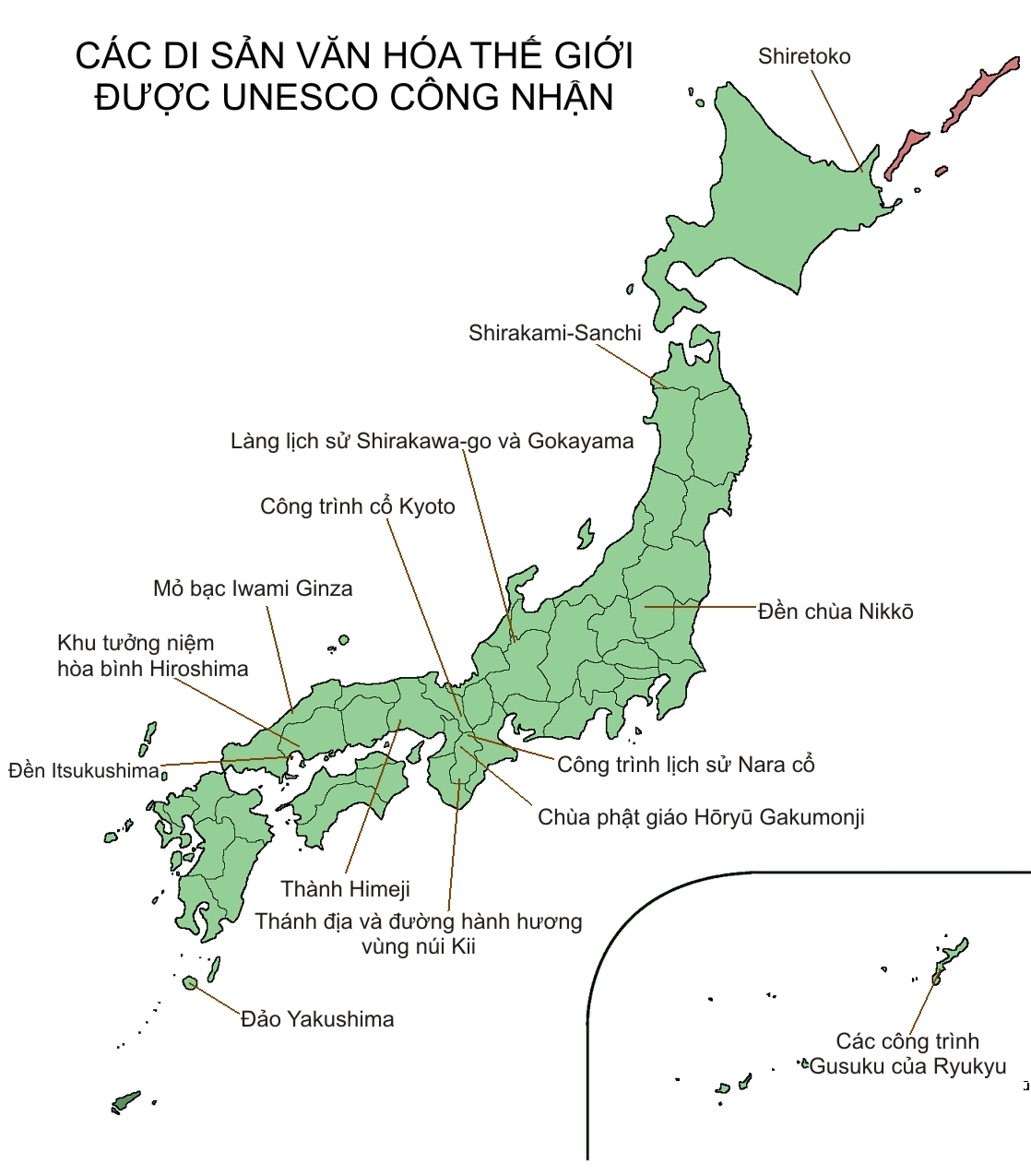 World Heritage Site in Japan 2008 (Vietnamese)